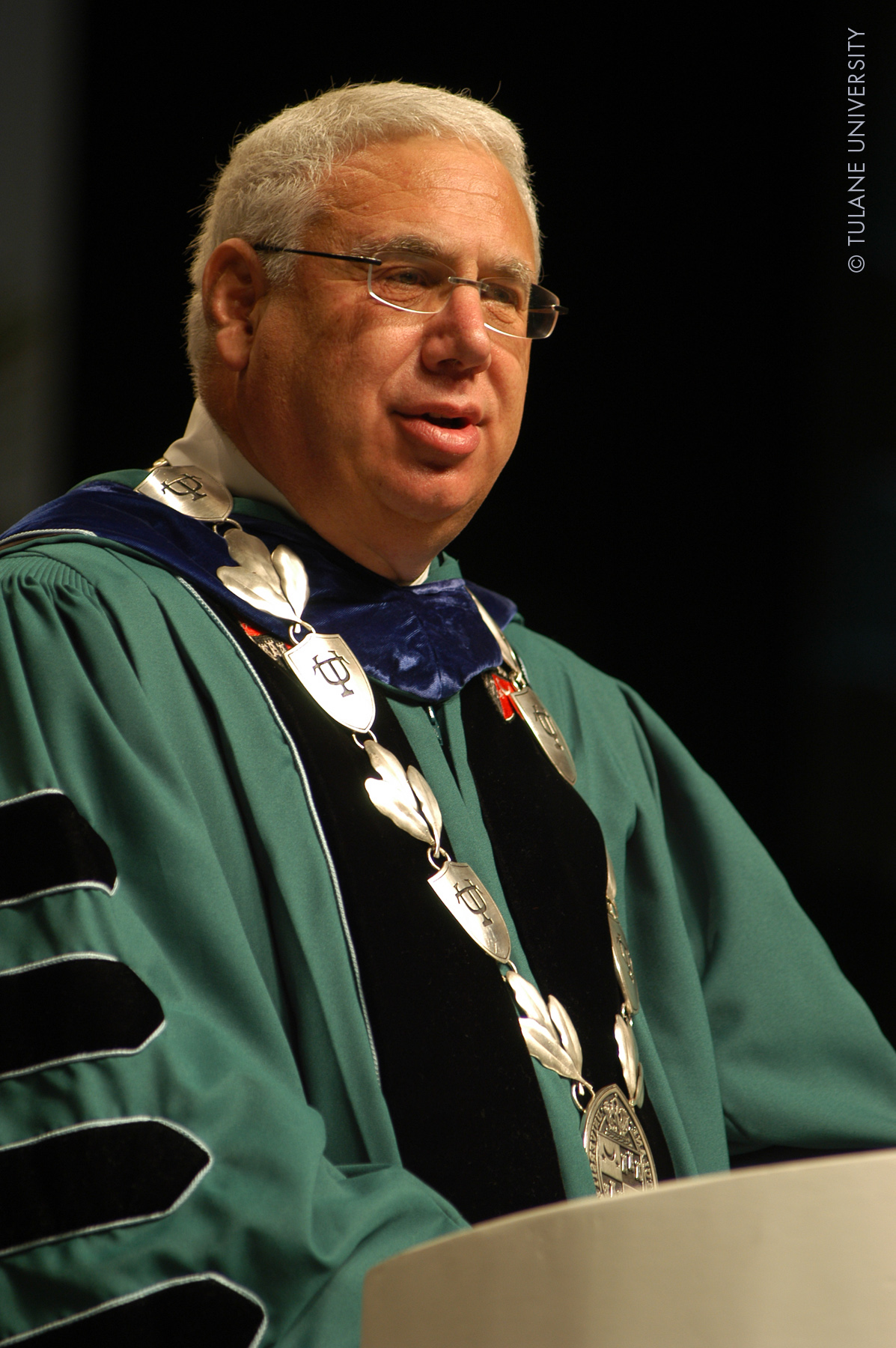 Scott Cowen